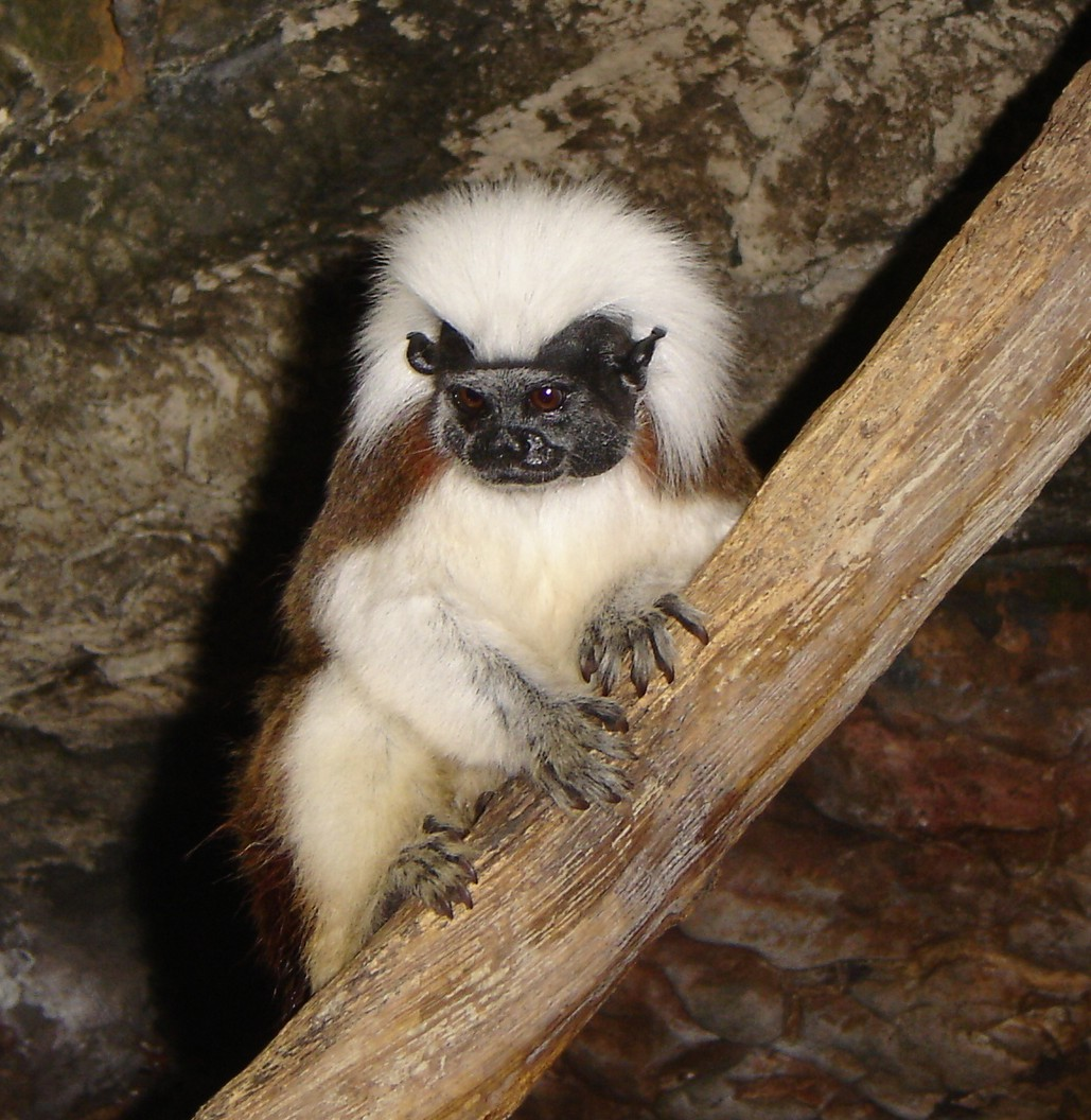 A Lisztaffe or Cottontop Tamaran at the Salzburg Zoo, Salzburg Austria, October 2004